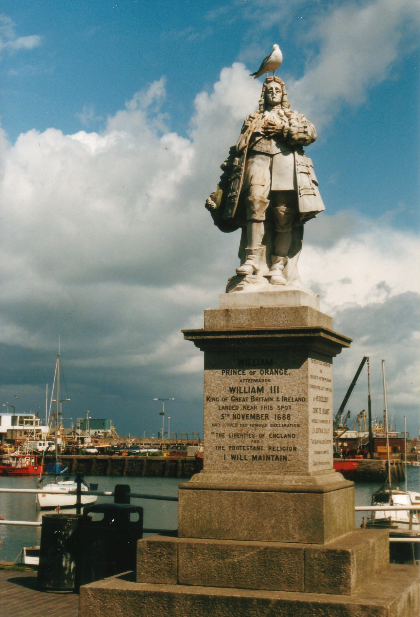 Statue of William of Orange in Brixham close to where he landed at Brixham.